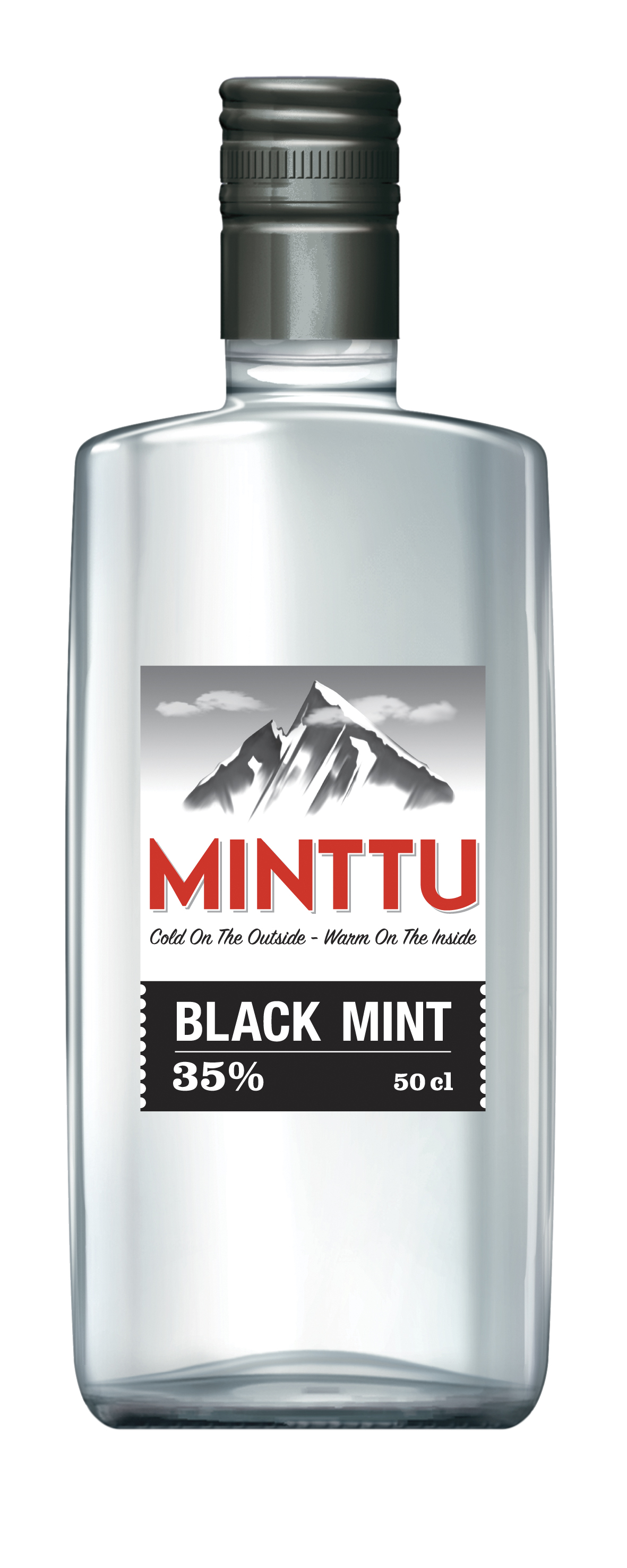 Pernod Ricard Finland, Liqour, Salmiac and peppermint, 35% alcohol